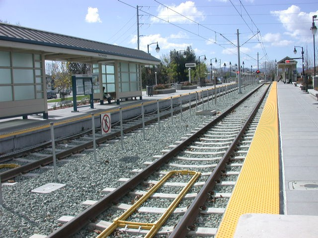 San Fernando light rail station. San Jose, California